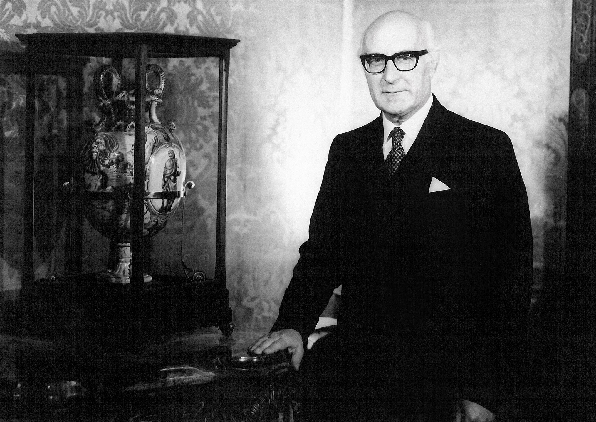 Portrait of Anthony Mamo provided by the government of Malta.